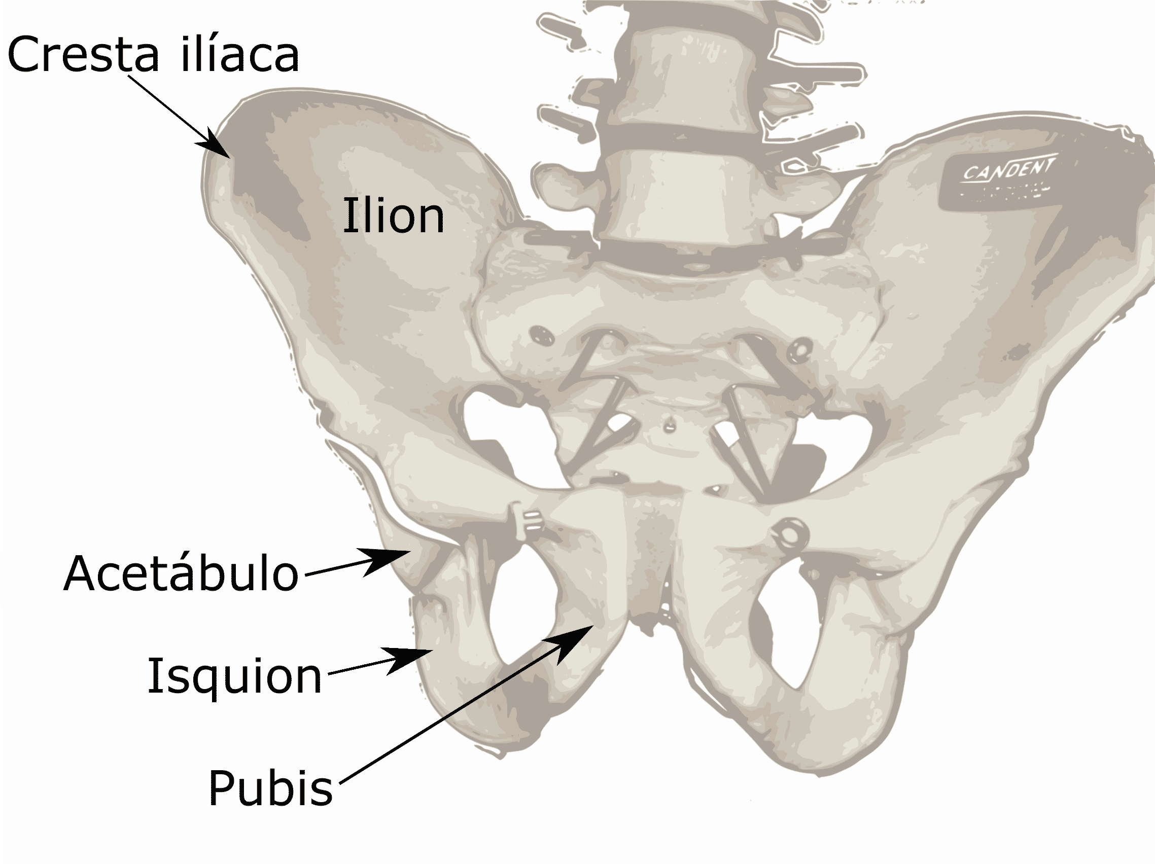 A labeled diagram of the human pelvis, created from a photograph I took of a model in a university anatomy lab. Traced and rendered using Inkscape 0.44.1